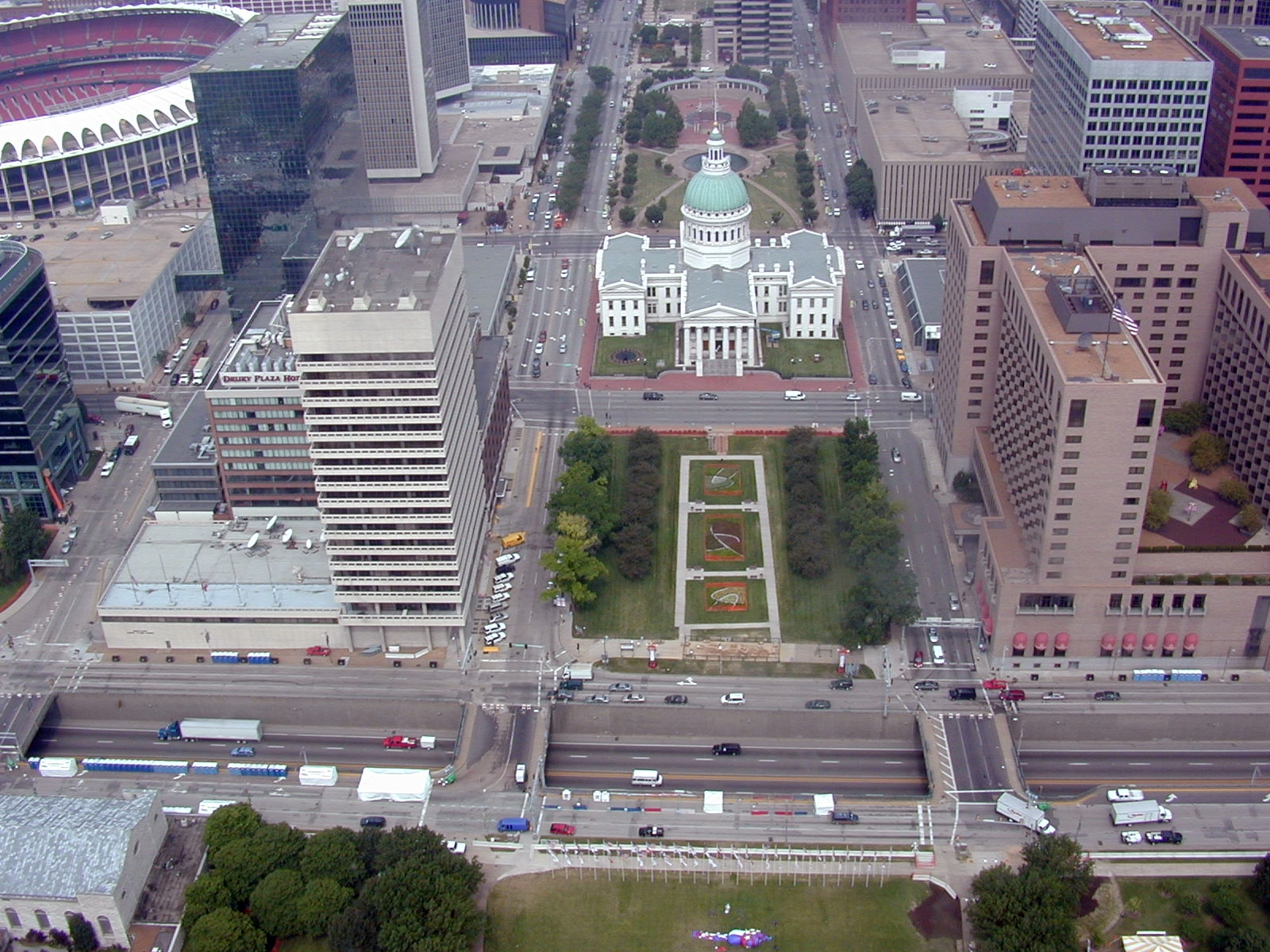 I-.70 passes The Old Courthouse in St. Louis, Missouri